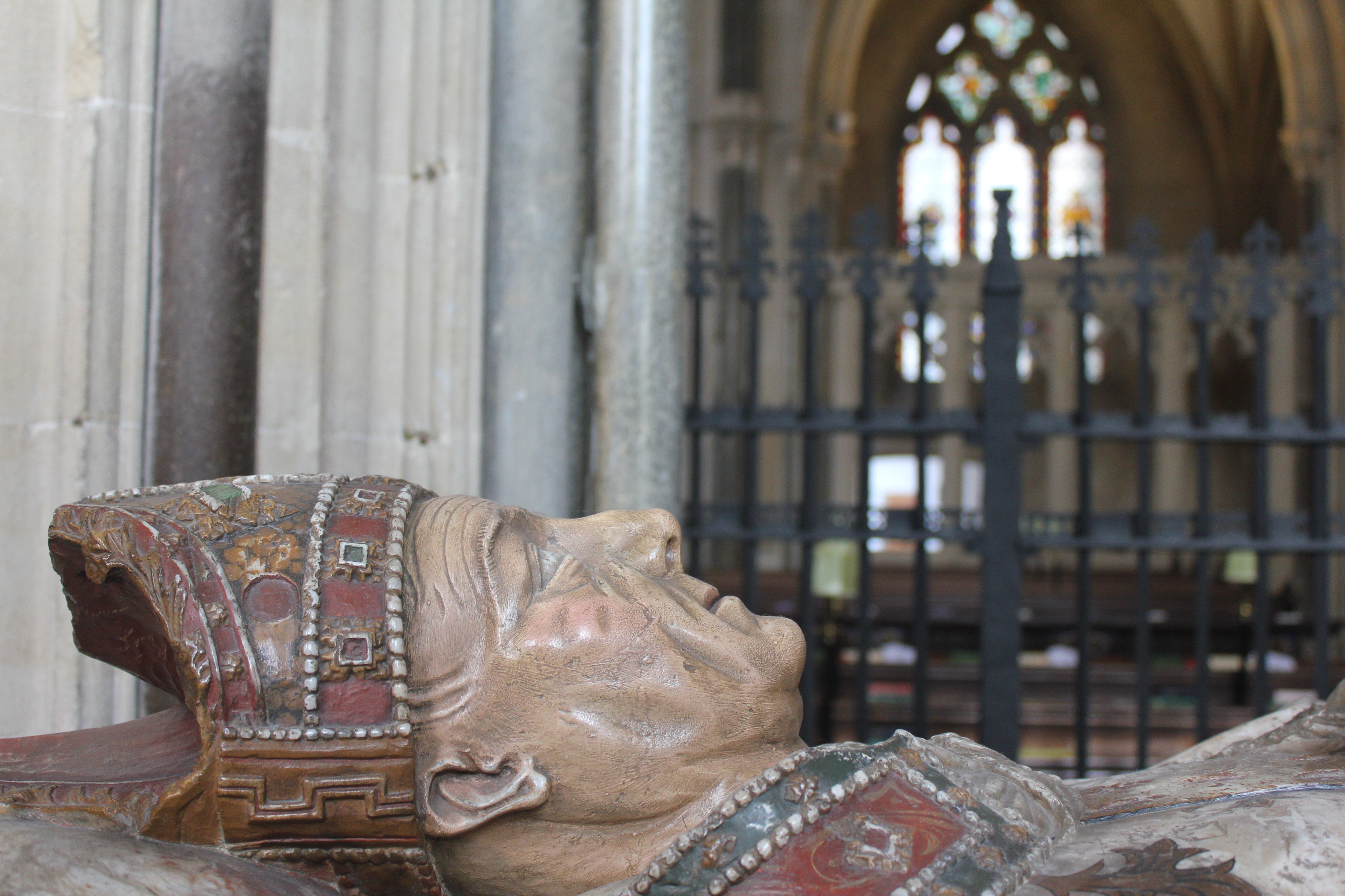 Image of Bishop Thomas Beckynton, Bishop of Bath and Wells, from his tomb located in the Beckynton chantry at Wells Cathedral